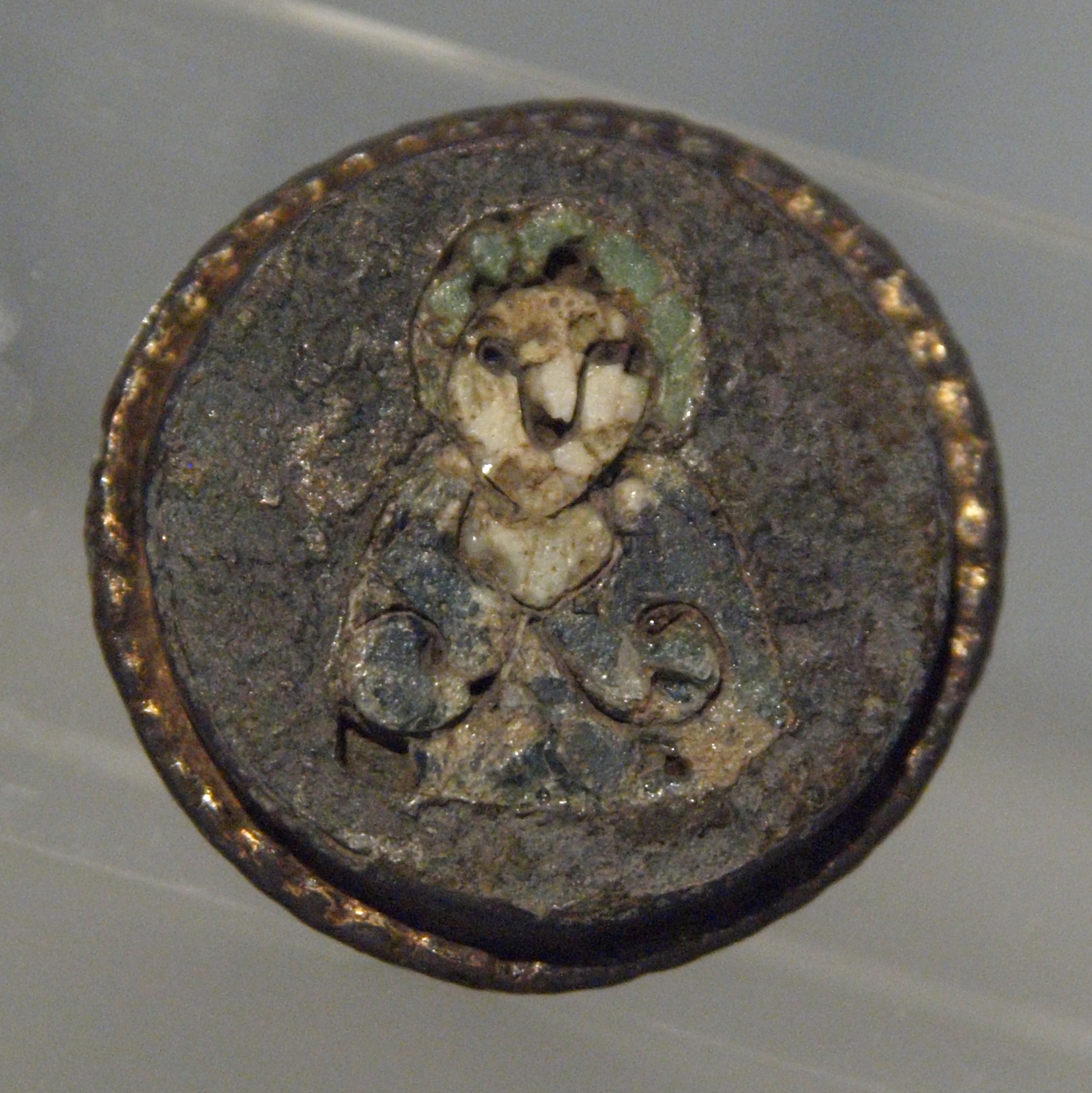 Todtglüsingen disc brooch depicting an unidentified saint from Todtglüsingen Tostedt, Harburg District, Germany. Enamel. Circa 850-900 A.D. This fibula is identic with the Maschen disc brooch. On the exhibition „Mythos Hammaburg“ at Archäologisches Museum Hamburg